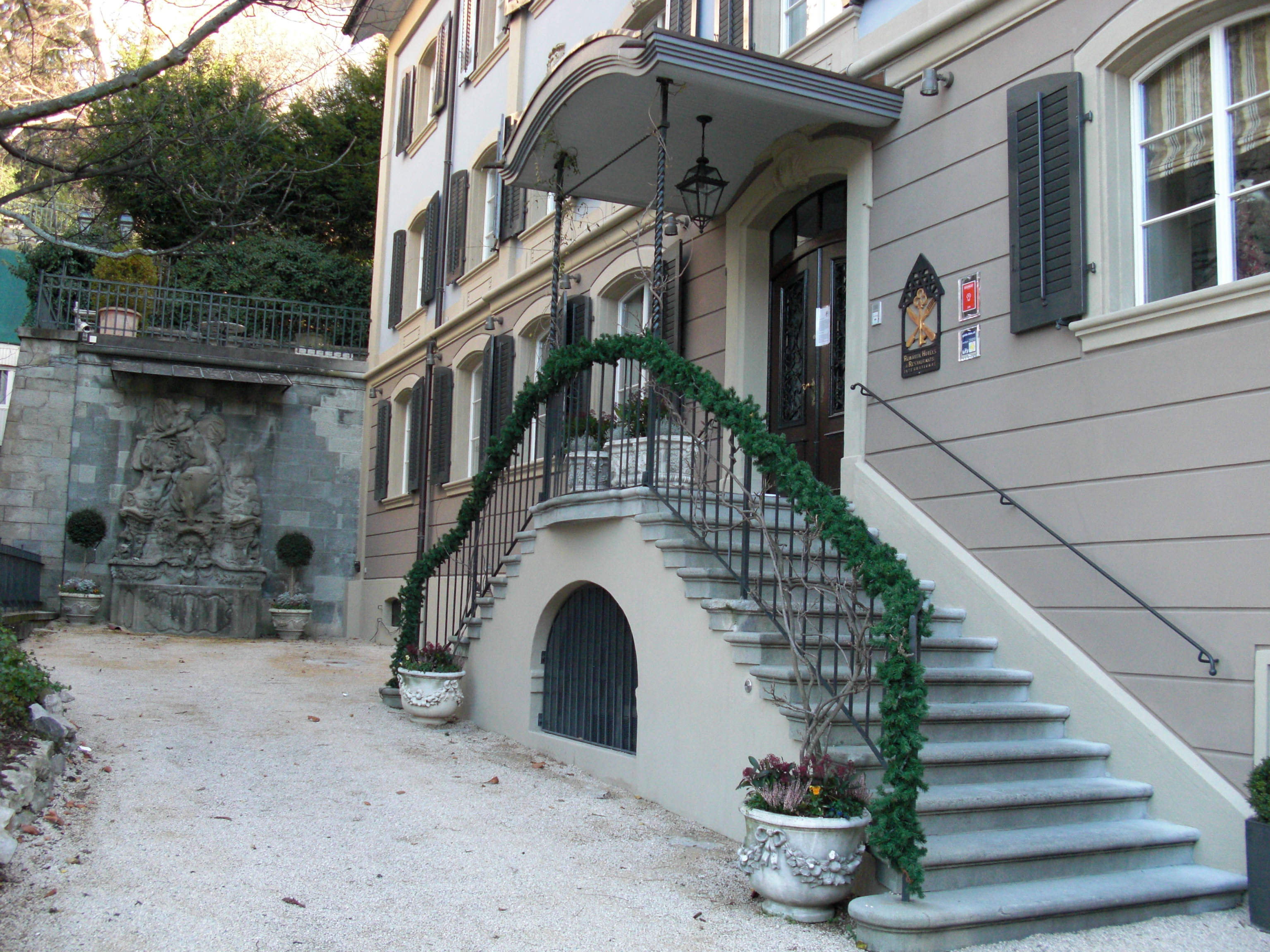 Courtyard of the Hotel Florhof, Zurich, Switzerland